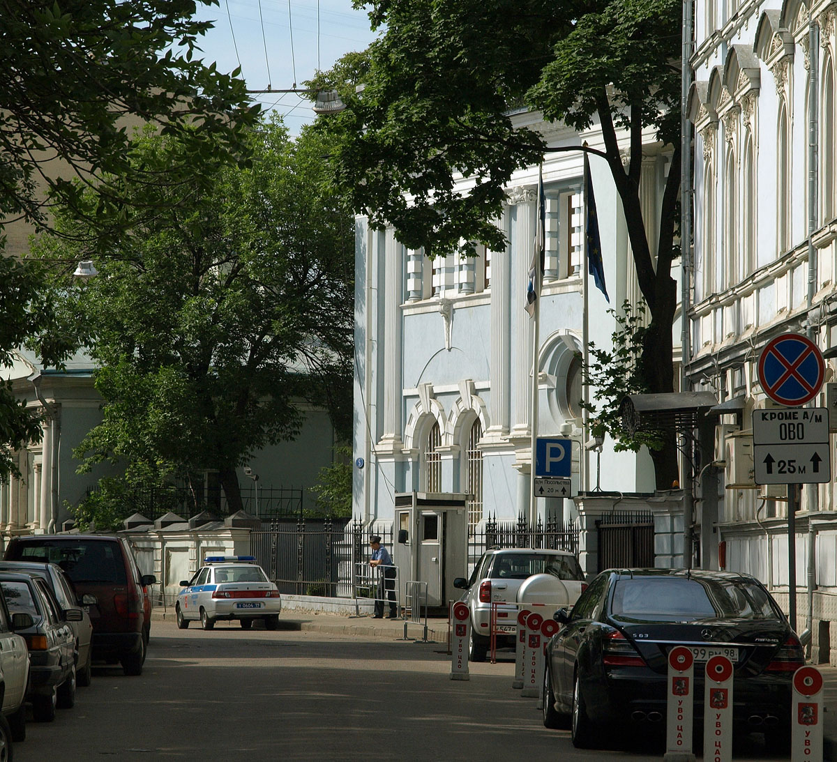 Embassy of Estonia in Moscow (Maly Kislovsky lane, 5).